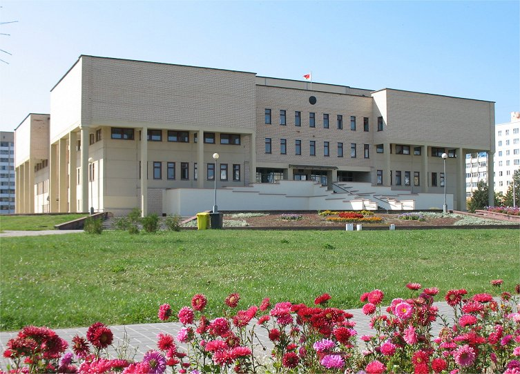 Administration building of the region/ city Soligorsk (Salihorsk), Minsk province, Belarus.